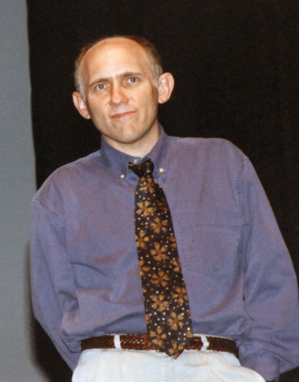 American actor Armin Shimerman at FedCon IV in Bonn, Germany, 1996.